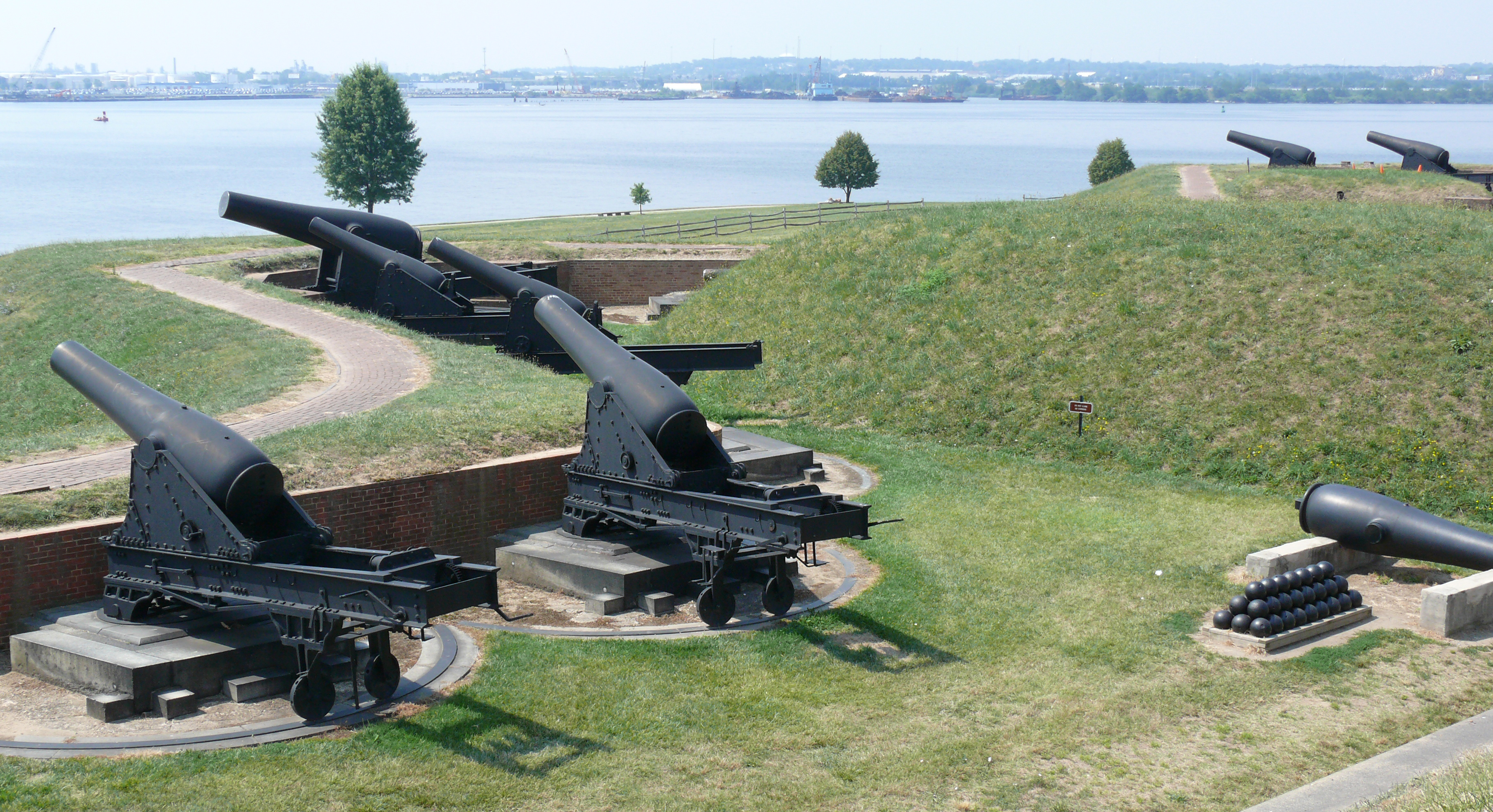 Outside Fort McHenry. Fort McHenry, in Baltimore, Maryland, is a star shaped fort best known for its role in the War of 1812 when it successfully defended Baltimore Harbor from an attack by the British navy in the Chesapeake Bay. It was during this bombardment of the fort that Francis Scott Key was inspired to write The Star-Spangled Banner, the poem that would eventually be turned into the national anthem of the United States, set to the tune of a British song To Anacreon in Heaven.